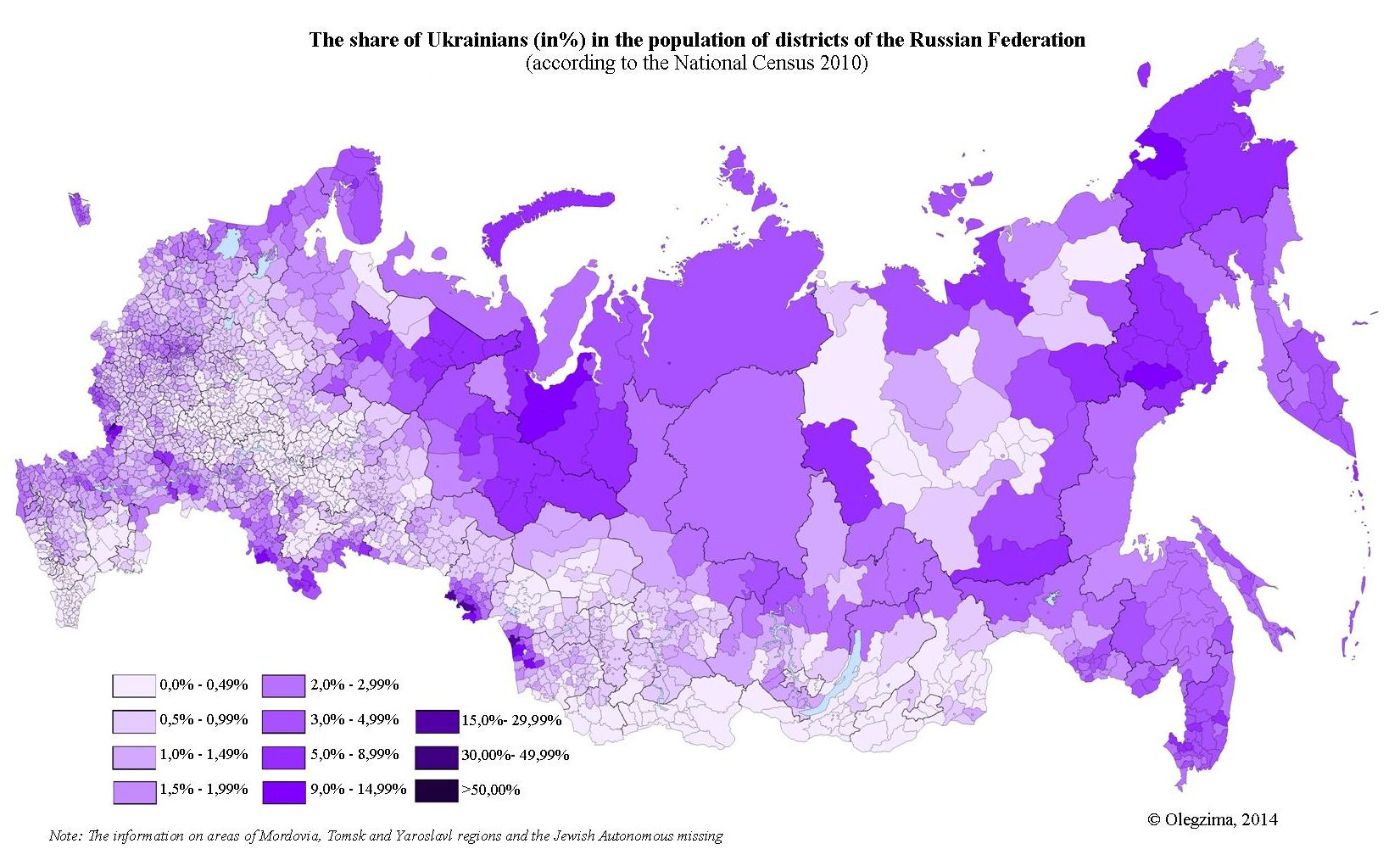 Ukrainians share in the population of districts of the Russia